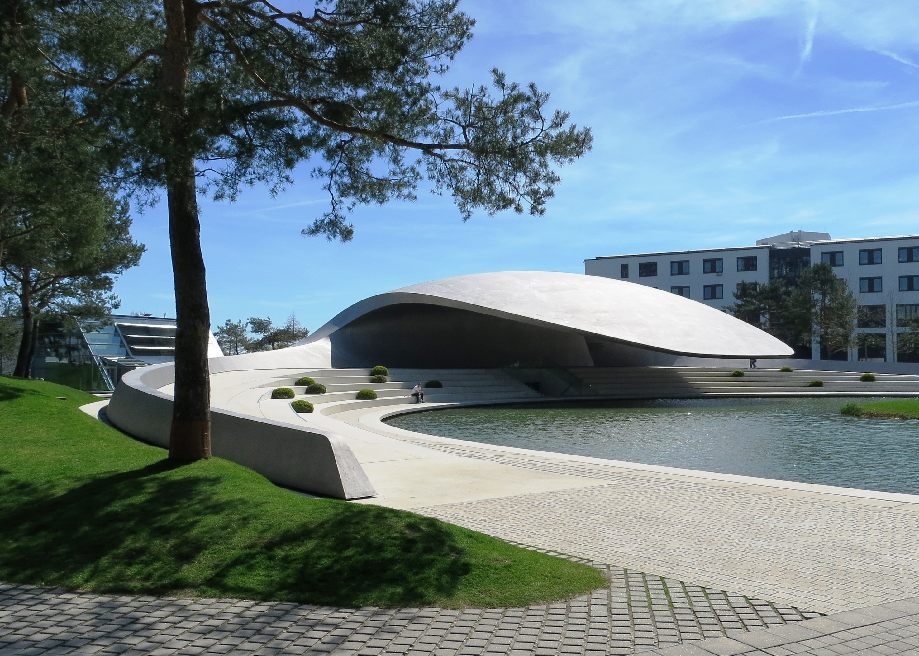 Porsche Pavillon (Autostadt)